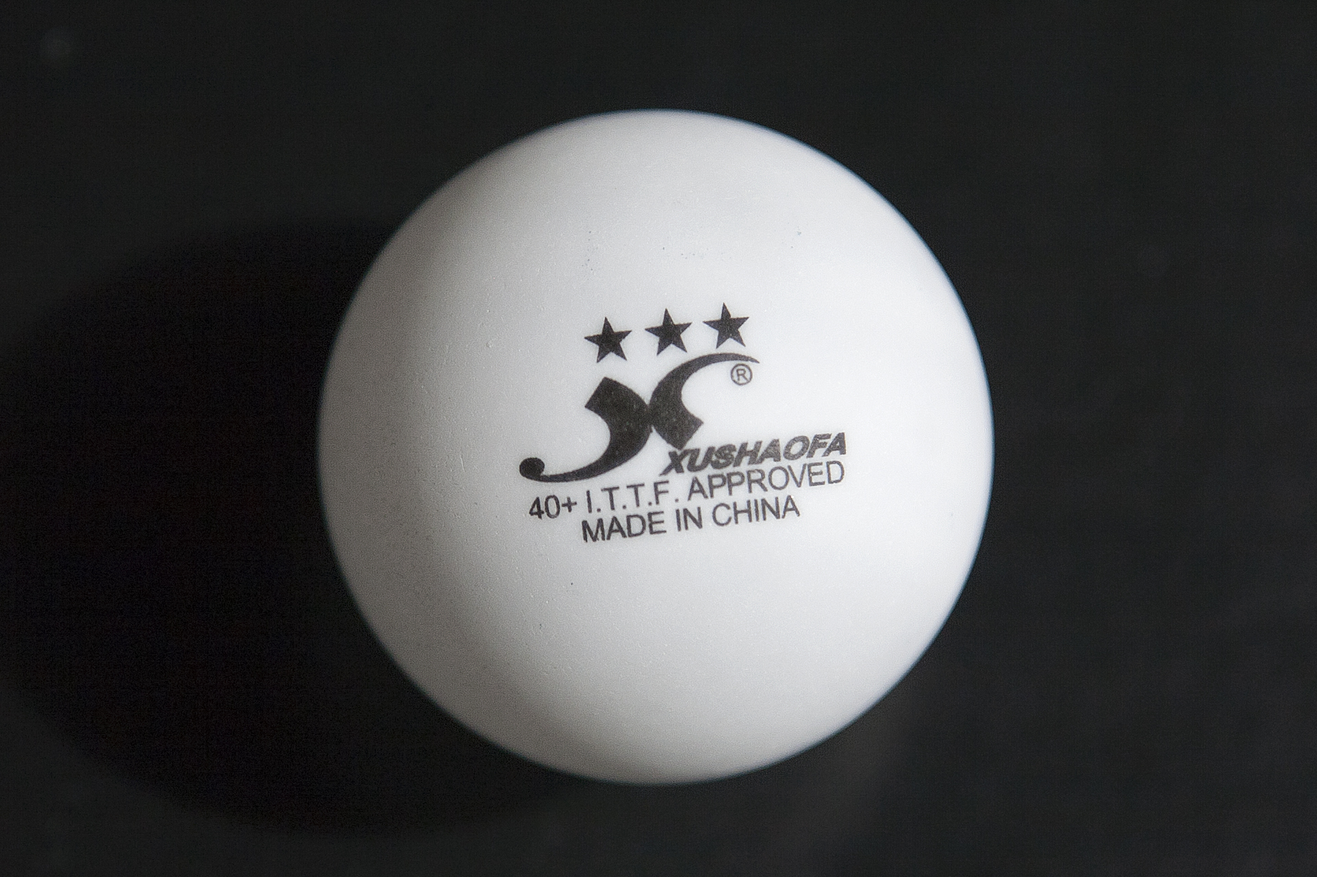 Table tennis plastic ball 40+ mm.